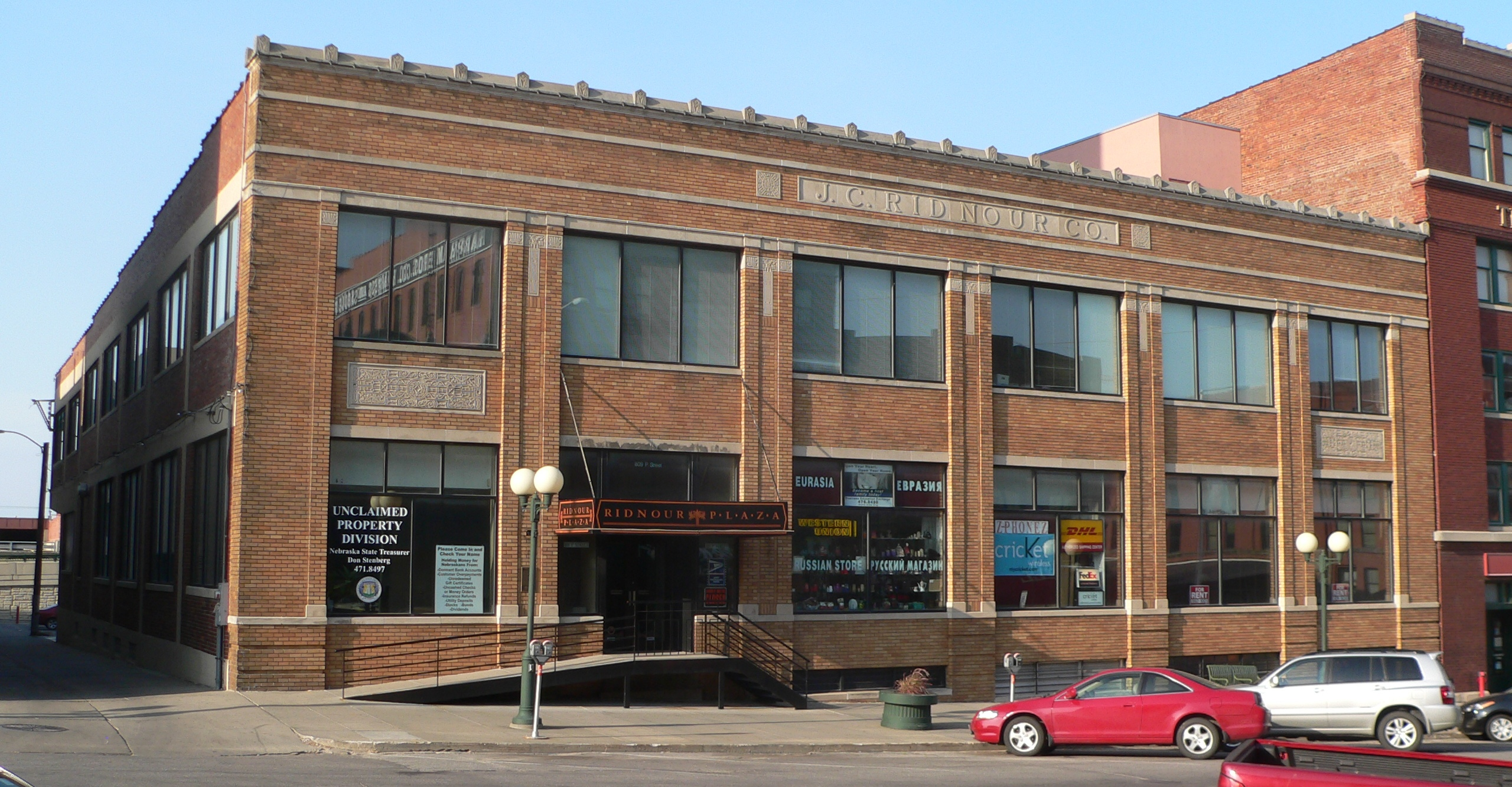 Haymarket District in Lincoln, Nebraska: Ridnour building, located at 809 P Street. According to a plaque on the building, it was designed by architects Meginnis & Schaumberg and built in 1925.